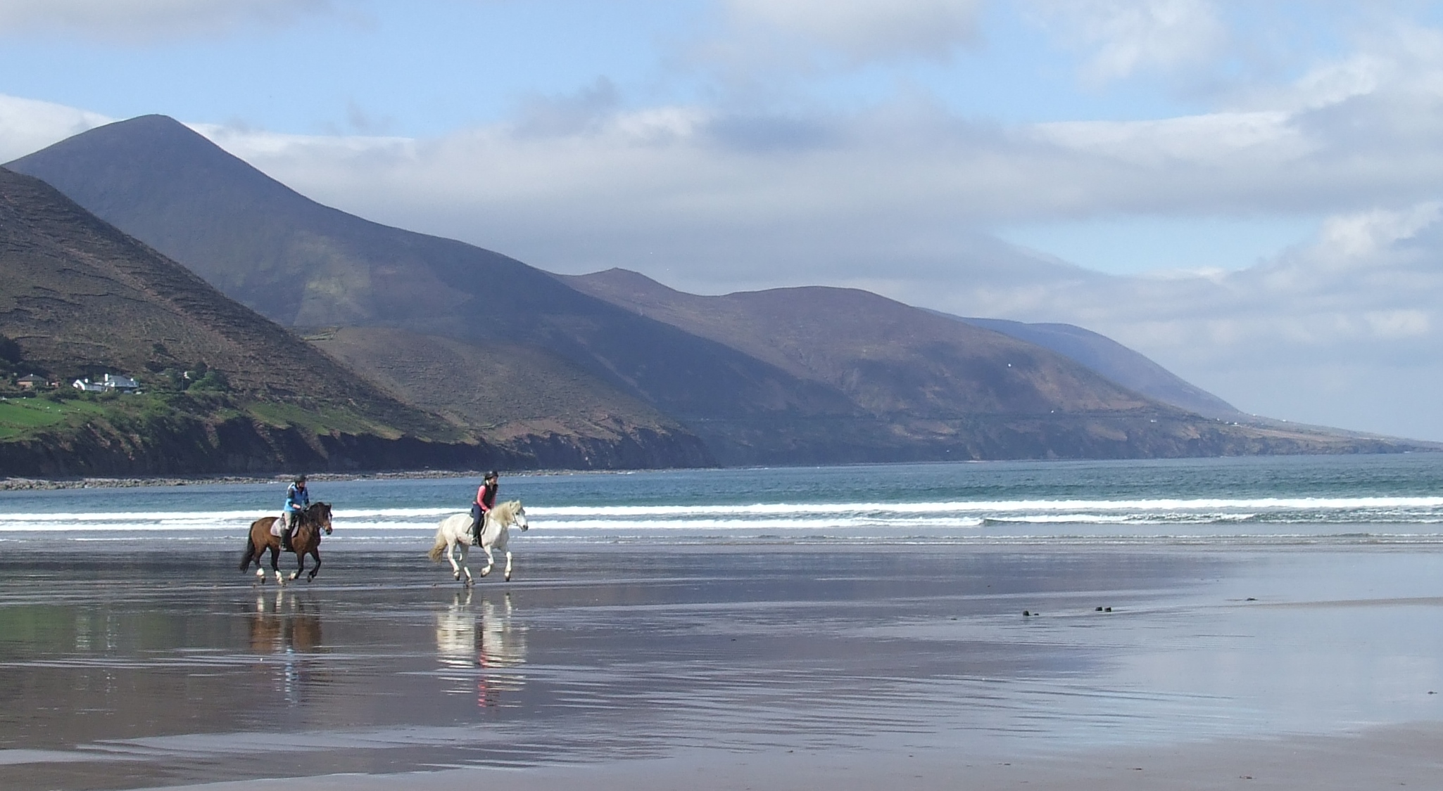 Picture of horses on Rossbeigh Beach, Co Kerry, Ireland